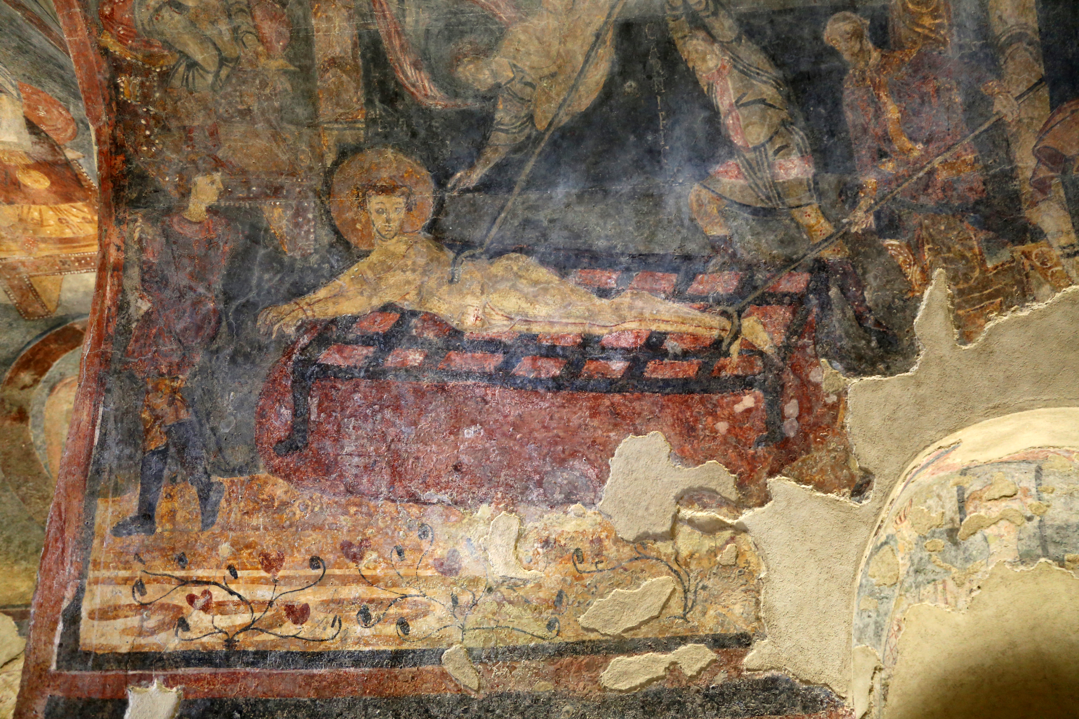 Epifanio Crypt